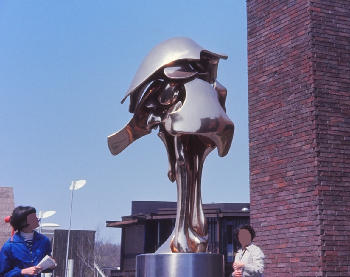 Anthropomotion lll , from the sculptor Olivier Strebelle (1927-2017), beside the Belgium Pavilion, Expo 67, Montreal, Quebec, Canada. This is a moving, three meters high, polished bronze sculpture, created in 1966. Its mobile elements, all sensually curved, are moved by an ingenious hidden mechanism composed of axels and gears, designed by the Belgian versatile artist Francis André (1906-1972).